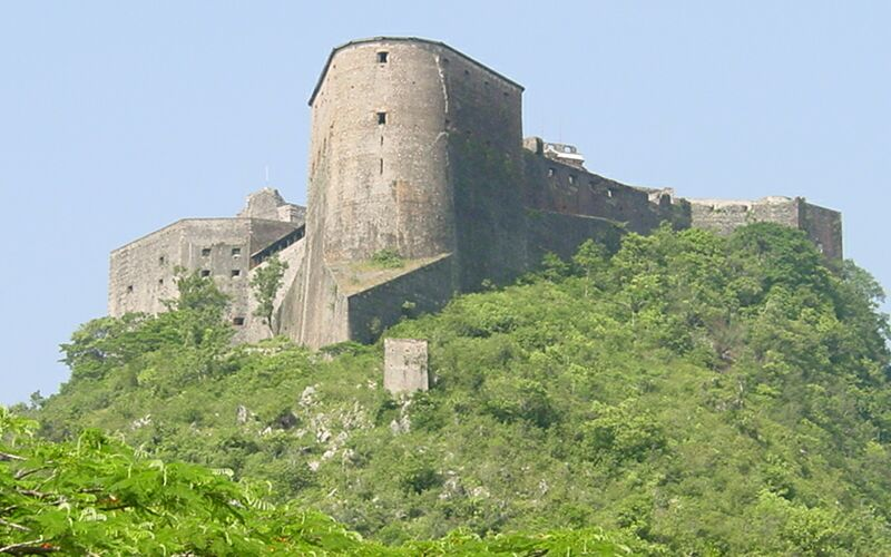 The view of the "Citadelle Laferrière" in Milot, Haiti, as seen from the trail below. Taken by Van Elliott on May 29, 2006.